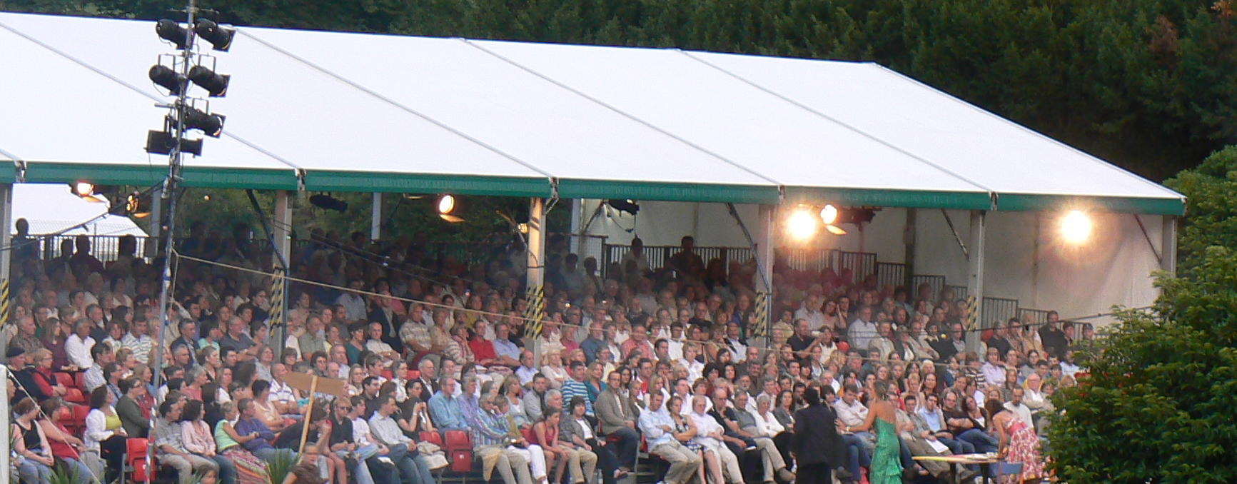 view of the seating stand and the garden stage at the Pendley Shakespeare Festival